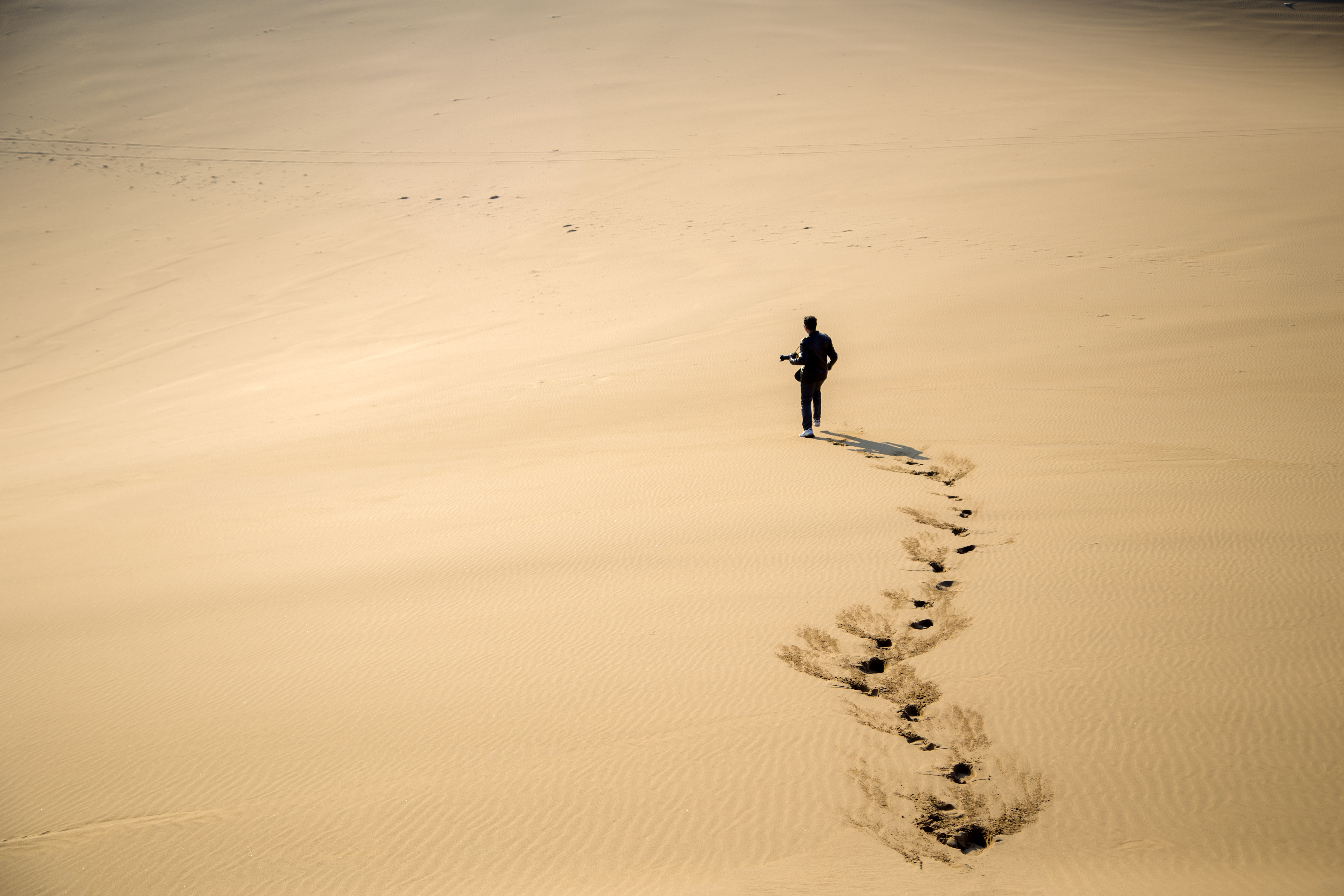 The Maranjab Desert is located in Aran va Bidgol, Iran and around 60 km north-east of Kashan.